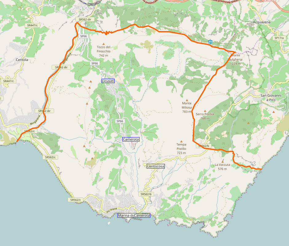 This map may be incomplete, and may contain errors. Don't rely solely on it for navigation.